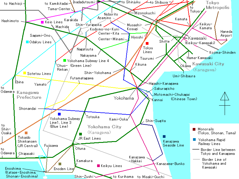 The railway network around Yokohama and Kawasaki Cities, in Kanagawa Prefecture, Japan.